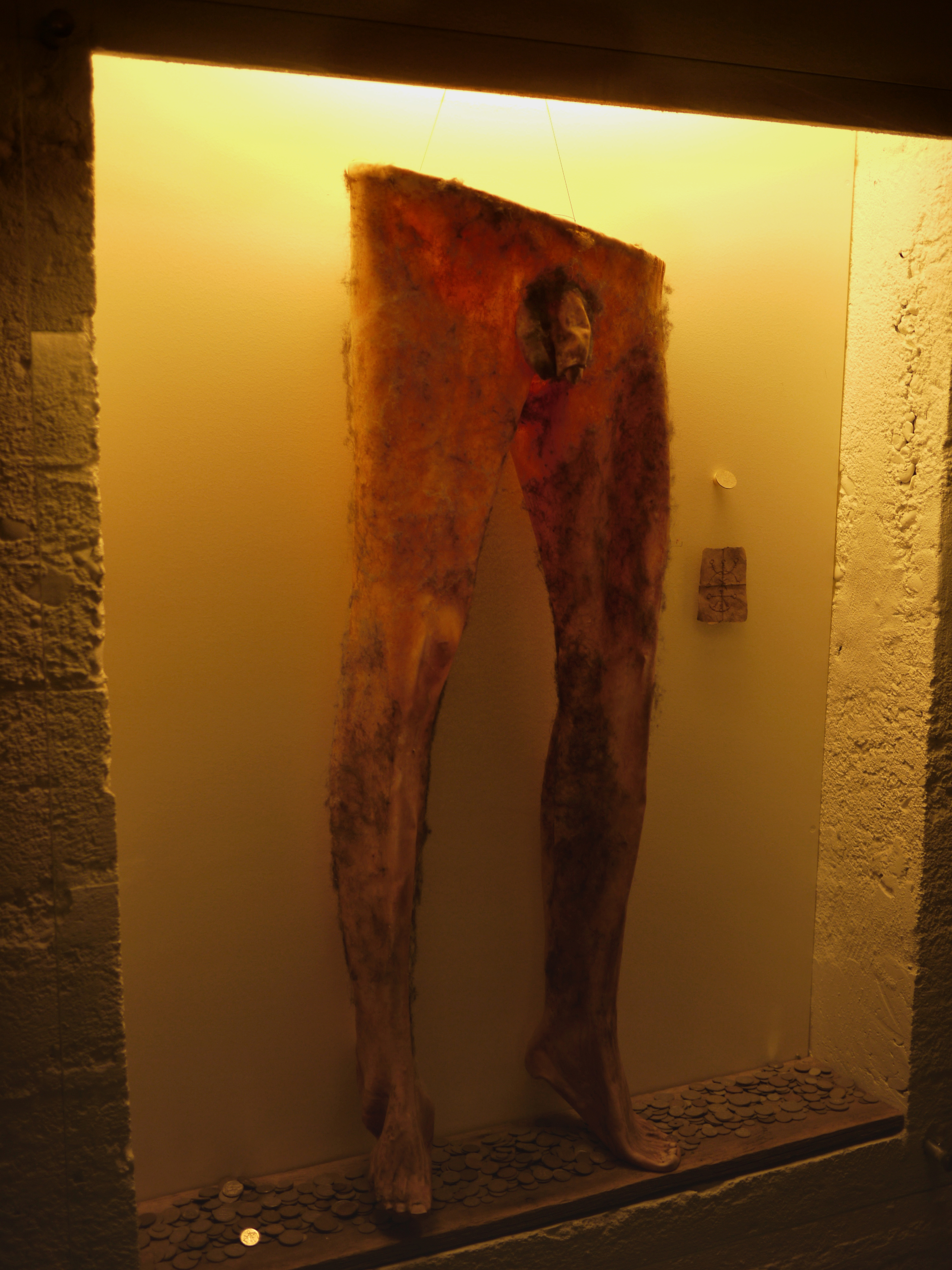 A replica[1] of necropants at The Museum of Icelandic Sorcery & Witchcraft in Holmavik, Iceland.[2] At the right of the pants is the magical symbol (nábrókarstafur) that is part of the ritual and at its feet are coins. The exhibit is behind glass and lit from above with a harsh yellow light.